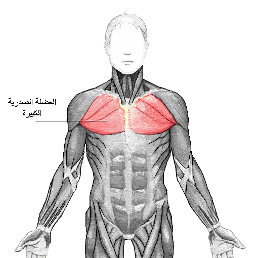 Pectoralis_major muscle